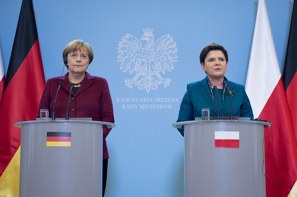 Meeting of German Chancellor Angela Merkel and Polish Prime Minister Beata Szydło in Warsaw